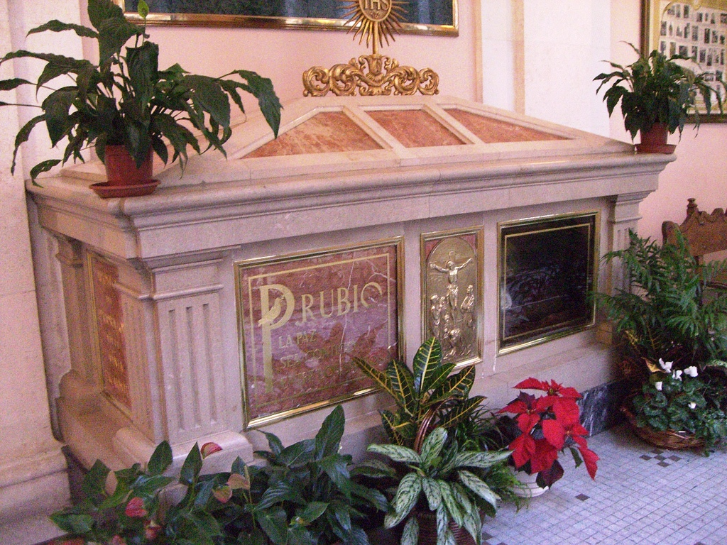 Saint José Rubio Peralta's tomb, at San Francisco de Borja church, Madrid, Spain